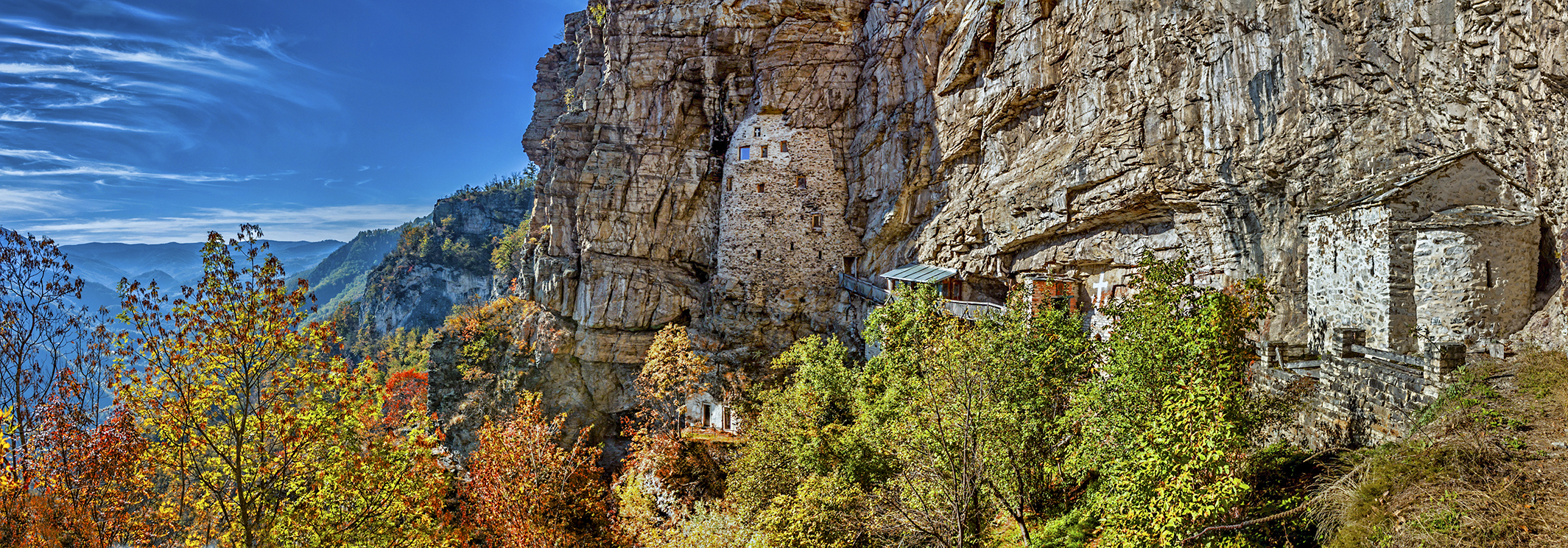 Ово је фотографија заштићеног природног добра у Србији под шифром: ПП13 This is a a photo of a natural area in Serbia with ID: ПП13 Church of Saint Sava Српски (ћирилица): Ово је фотографија заштићеног природног добра у Србији под шифром: ПП13 This is a a photo of a natural area in Serbia with ID: ПП13 Испосница Светог Саве код Студенице